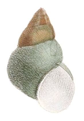 Drawing of an apertural view of a shell of Filopaludina javanica.